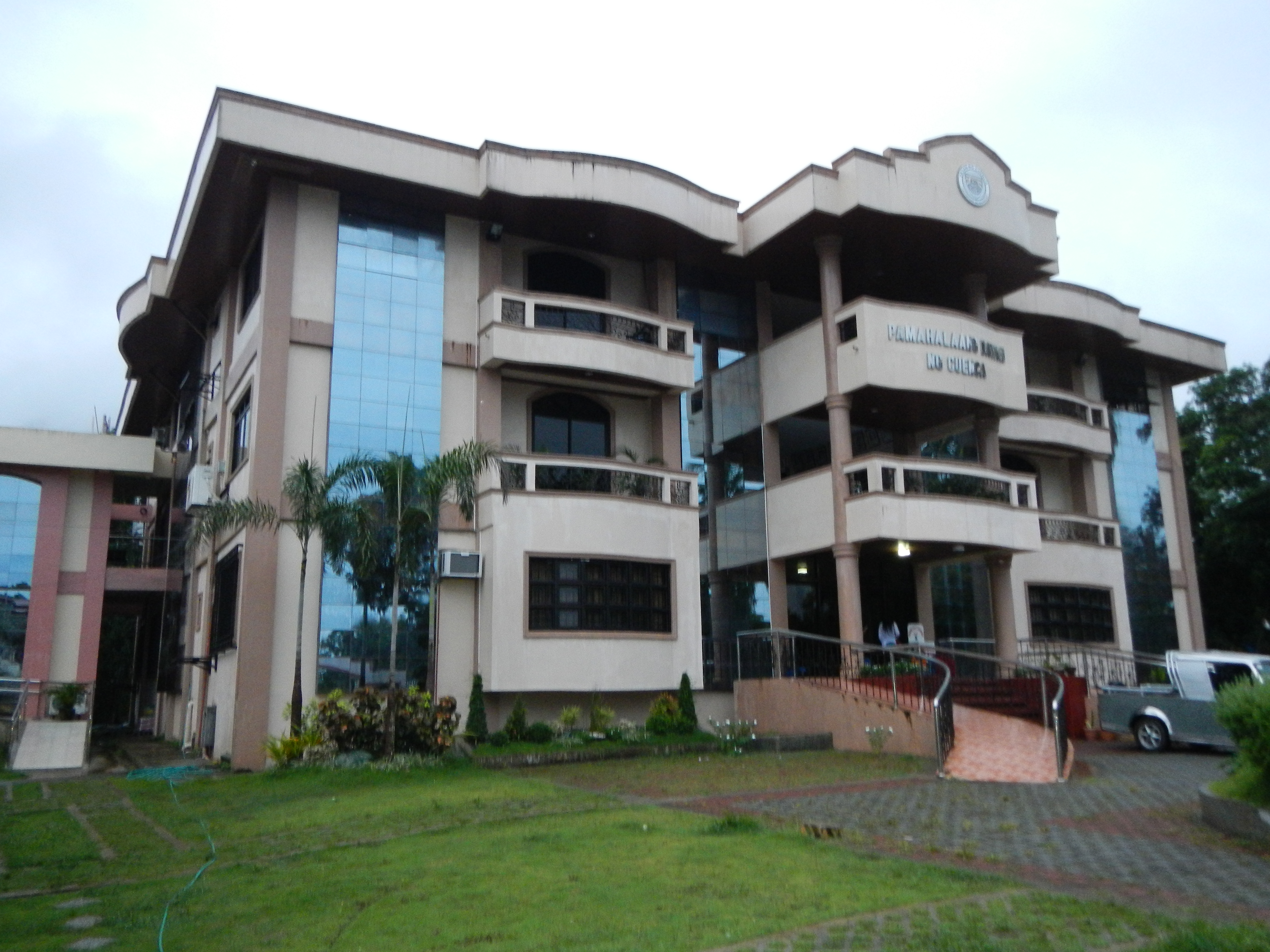 Poblacion 4, Cuenca, Batangas[1] --- Municipal Hall[2]Coordinates: 13°54'3"N 121°3'0"E Cuenca is a fourth class municipality in the province of Batangas, Philippines. According to the latest census, it has a population of 28,581 people in 5,222 households.also called Mount Makulot or Mount Maculot) is a mountain located in the town of Cuenca in Batangas province, in the Philippines. This mountain is popular among mountain climbers and campers; it is the major tourist attraction of the municipality.[3] Once a part of San Jose, it became an independent town under the name of "Cuenca" in 1876. Its famous tourist attraction Mount Macolod (600 metres (2,000 ft)).[4] Cuenca was founded in 1875 by the decree of the Superior Gobierno issued on August 11, 1875. Batangas, Region 4, Philippines, Asia geographical coordinates: 13° 53' 56" North, 121° 2' 46" East This place is situated in Batangas, Region 4, Philippines, its geographical coordinates are 13° 53' 56" North, 121° 2' 46" East and its original name (with diacritics) is Cuenca. [5] [6] [7][8] Coordinates: 13°54'4"N 121°3'0"E Cuenca Central Elementary School Barangay Poblacion 2, Cuenca, Batangas, Philippines Coordinates: 13°53'55"N 121°2'57"E[9] near Mt Maculot Trail, Cuenca, Philippines Cuenca Gym[10] Coordinates: 13°54'4"N 121°3'0"E Cuenca Gym Cuenca